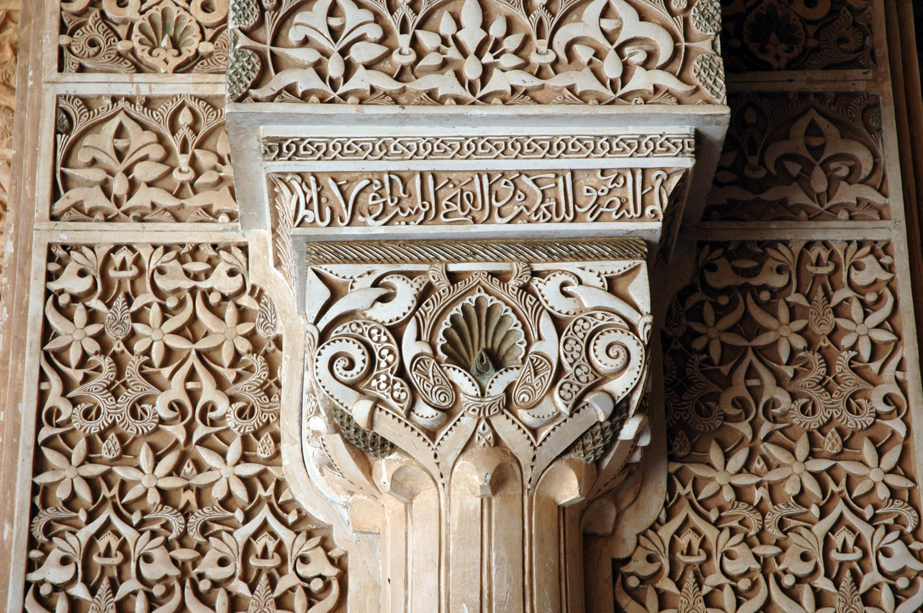 Top of a column in the Alhambra Palace, Granada, Andaluzia, Spain.Top of column